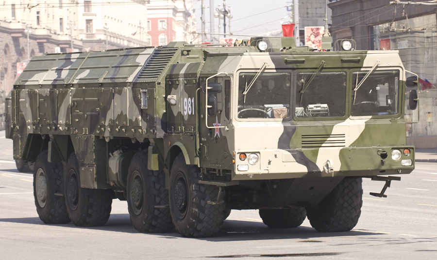 A Russian OTRK Iskander system during the Victory parade 2010.